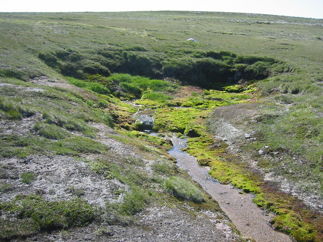 Well of Dee - Source of River Dee. One of a number of pools at 1220m on Braeriach.